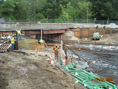 The 8-year, $3 billion Accelerated Bridge Program (ABP) funds support the $1.7 million improvements for the Petersham Rte 32 & 122 Bridge over the Swift River.